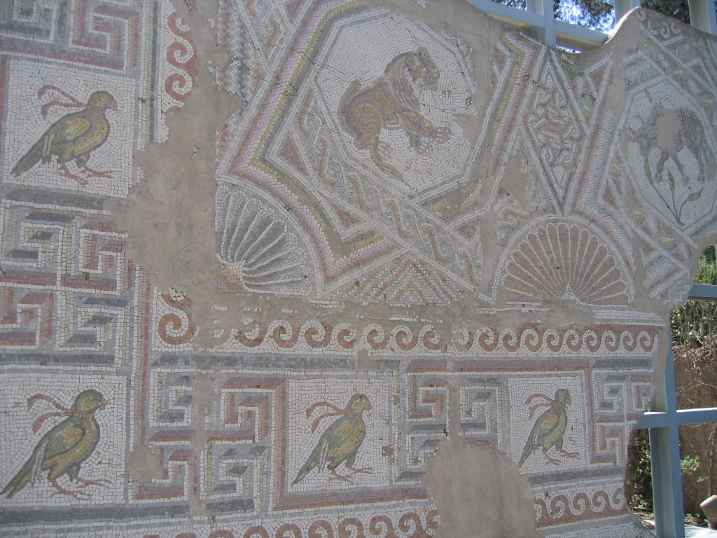 Floor Mosaic from a Byzantine Church, Horvat Berachot, Judaean Mountain, 5 century c.e. foto by yair talmor, 2006 at the israel museum in jerusalem.